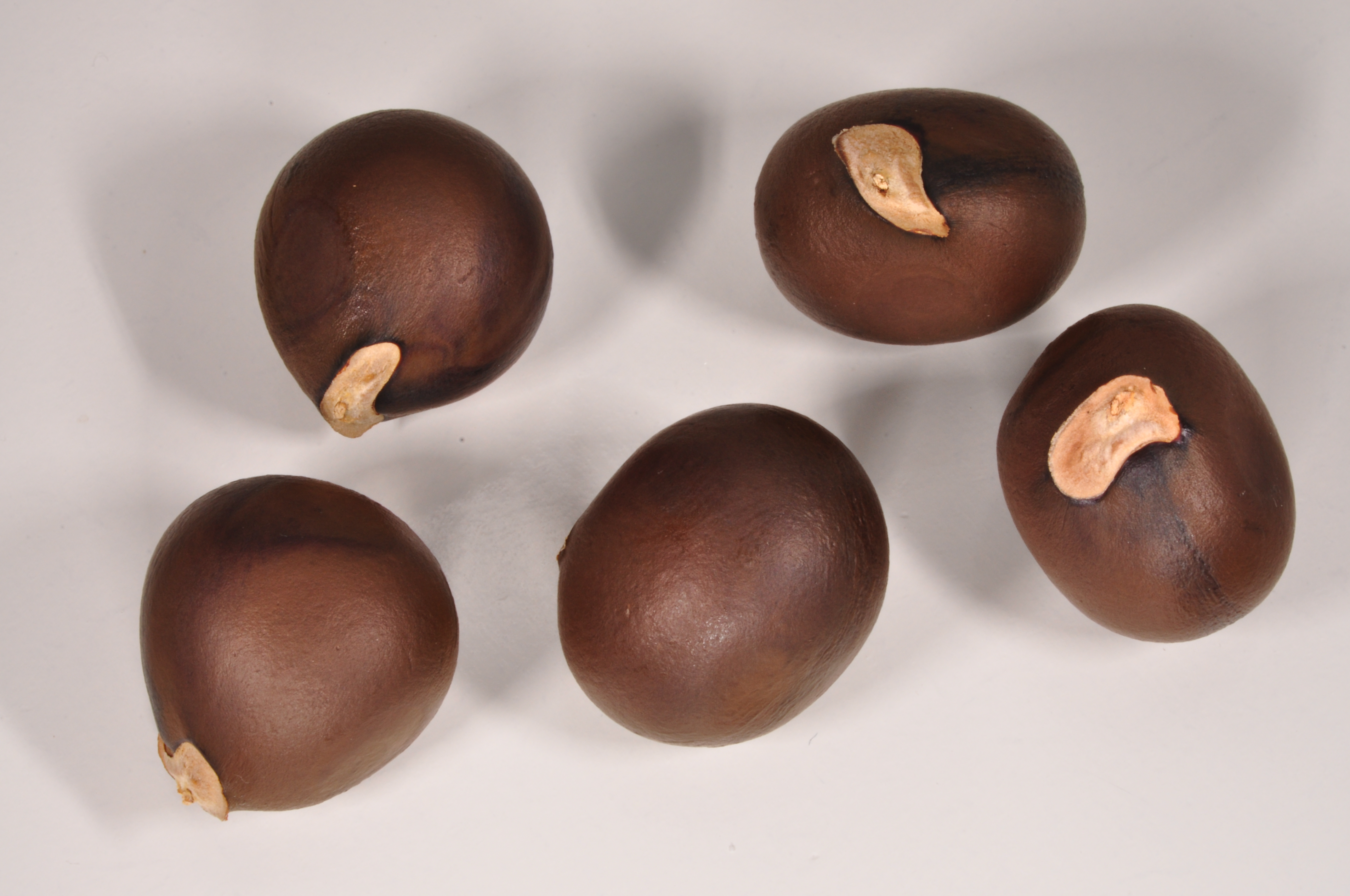 Yellowhorn. Botanischer Garten Bern, Switzerland.